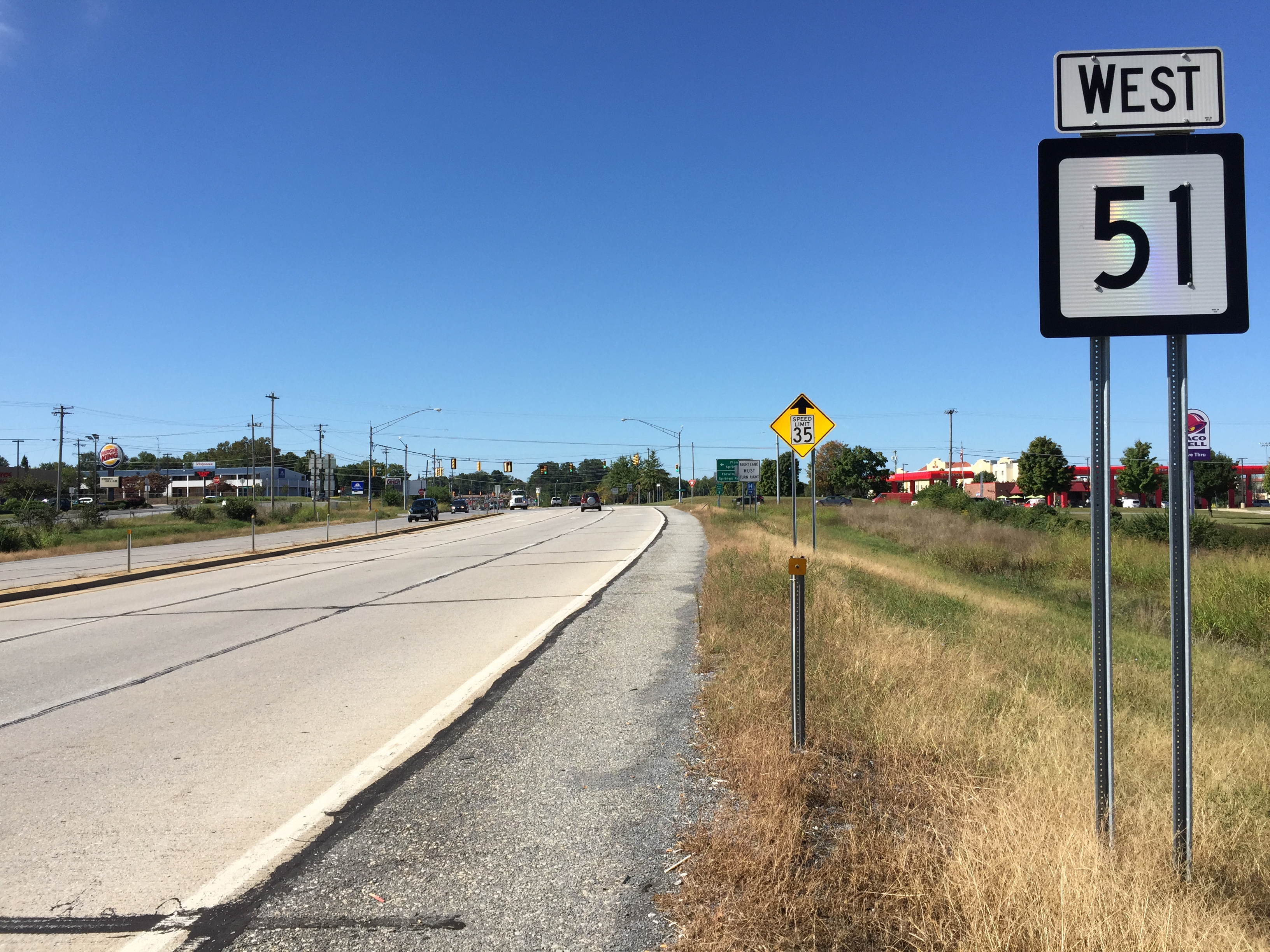 View west along West Virginia State Route 51 (Washington Street) at U.S. Route 340 and West Virginia State Route 9 in Charles Town in Jefferson County, West Virginia